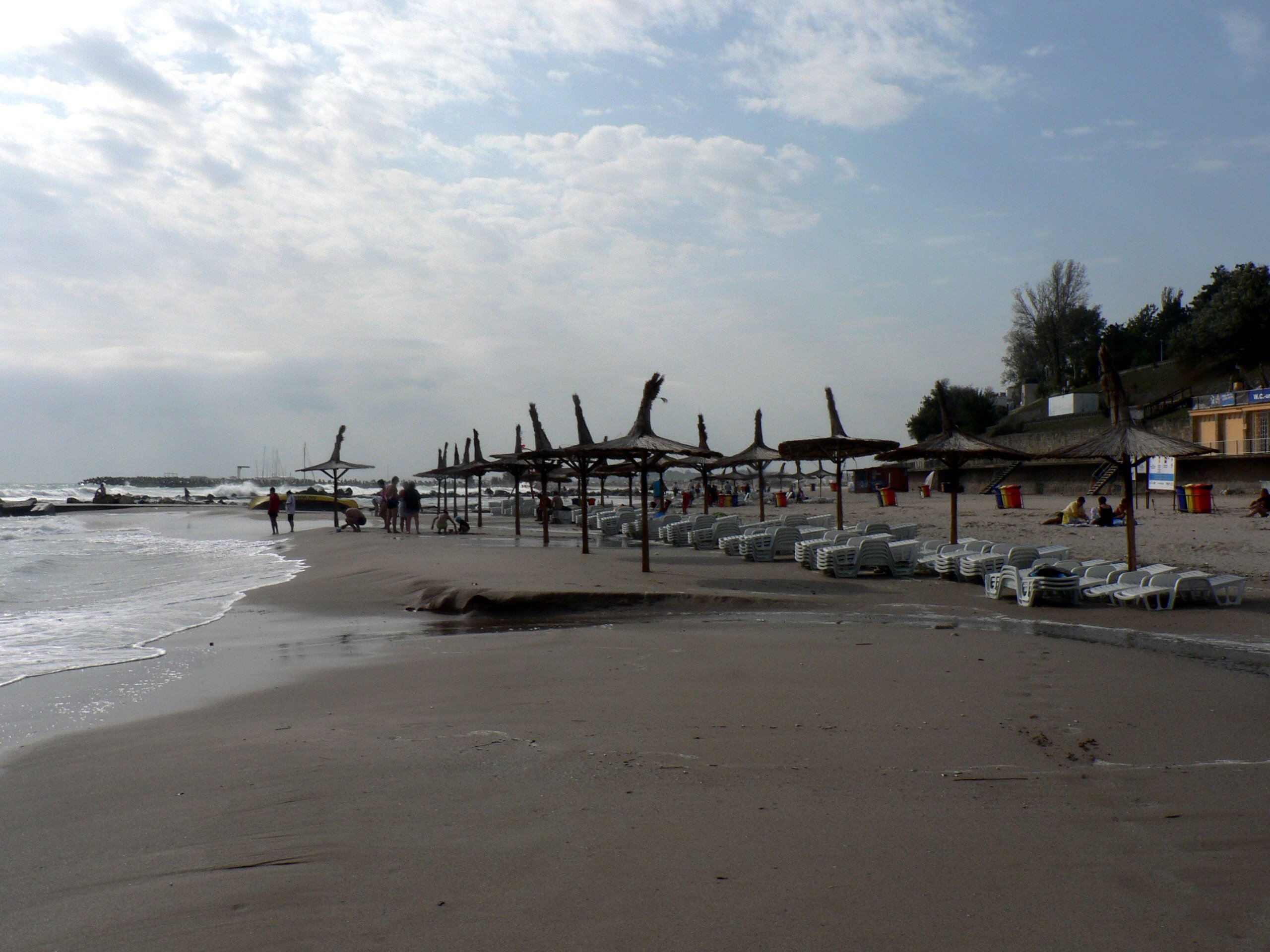 Beach in Eforie Nord